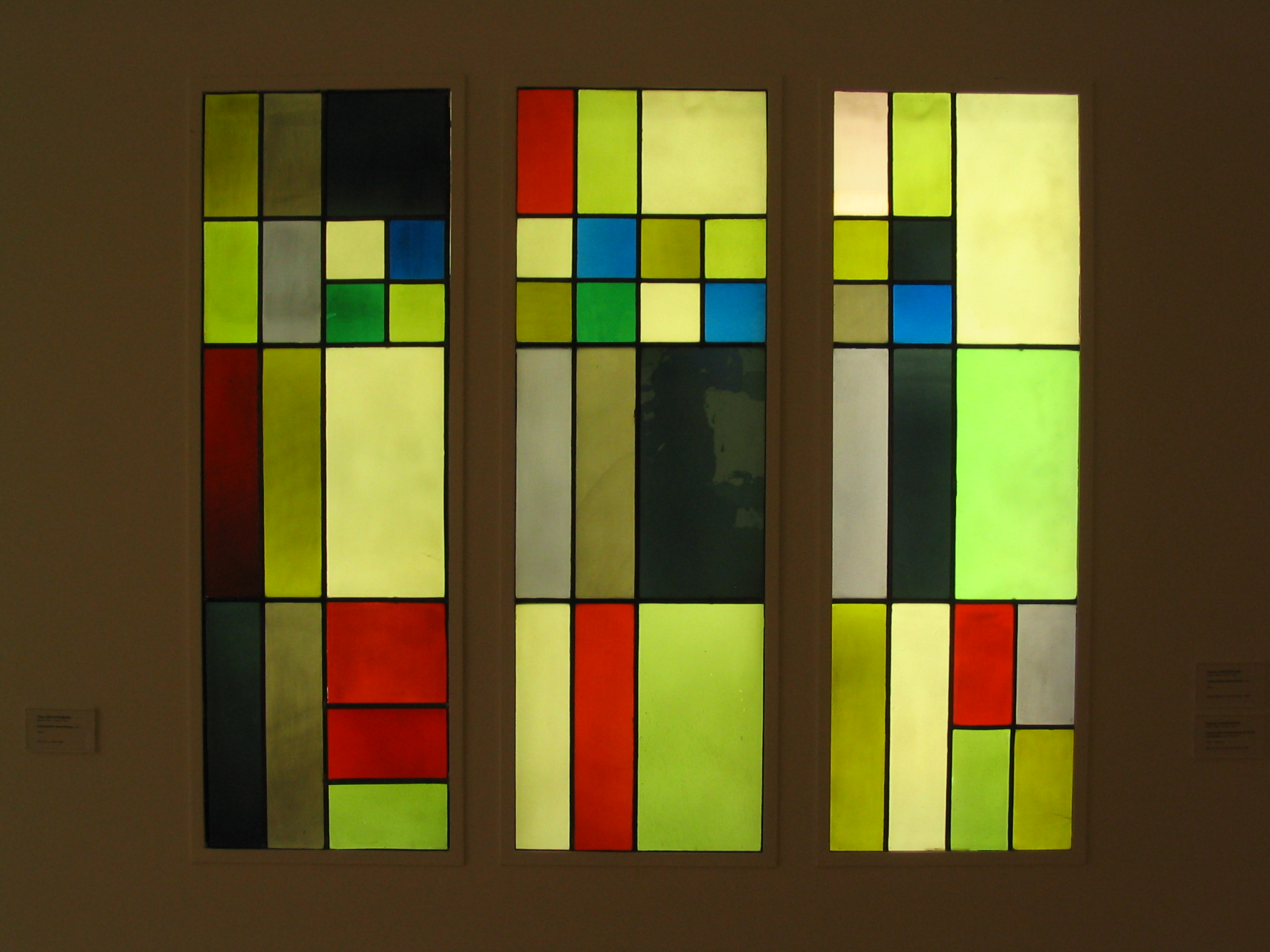 with nice colors!